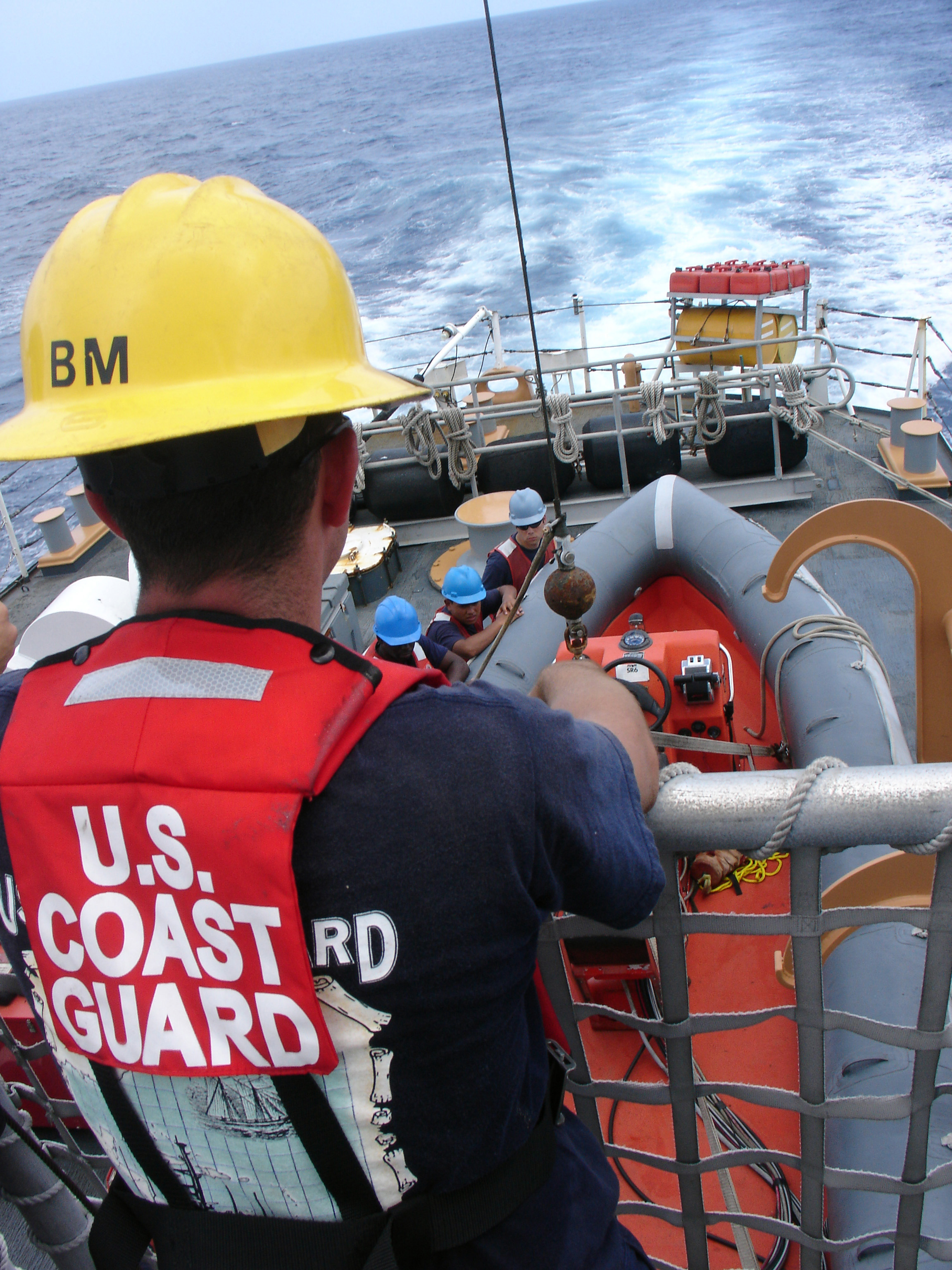 Caribbean Sea (Aug. 11, 2005) - U.S. Coast Guard Boatswain's Mate 3rd Class Jonathan Belval, serves as a safety supervisor as Sailors hoist-up a Rigid Hull Inflatable Boat aboard the U.S. Coast Guard cutter USCGC Forward (WMEC 911). Forward is underway in the Caribbean Sea as part of the multinational exercise PANAMAX. PANAMAX is a training exercise in defense of the Panama Canal involving 15 countries. The Panama Canal is critical to the free flow of trade and goods in the Western Hemisphere and the entire world. U.S. Navy photo by Chief Journalist Dave Fliesen (RELEASED)